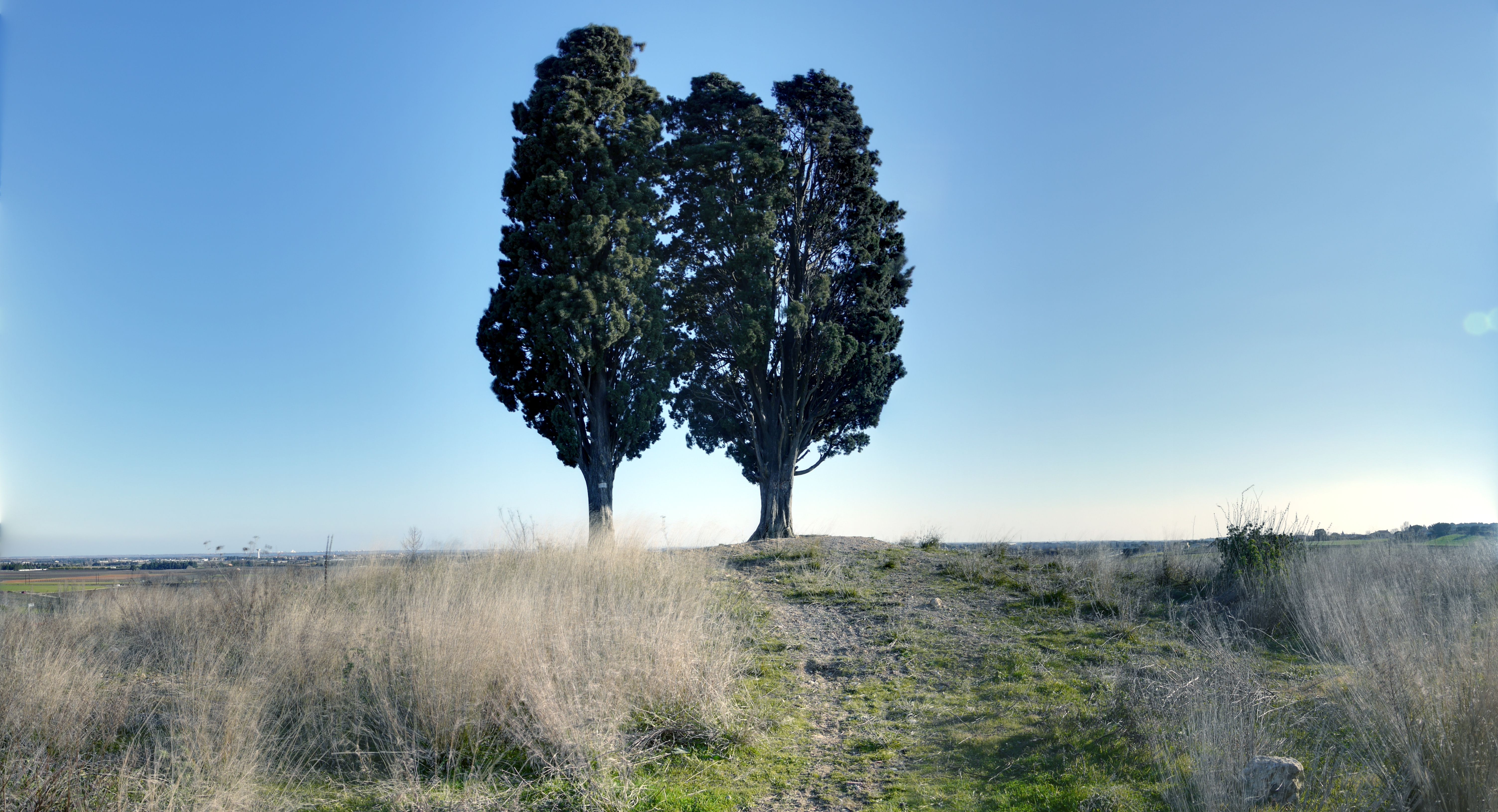 The cypresses of "Pioch-Palat" on the area of Saint-Aunès in France, visible from the nearby, included from Maugio and Vendargues area.